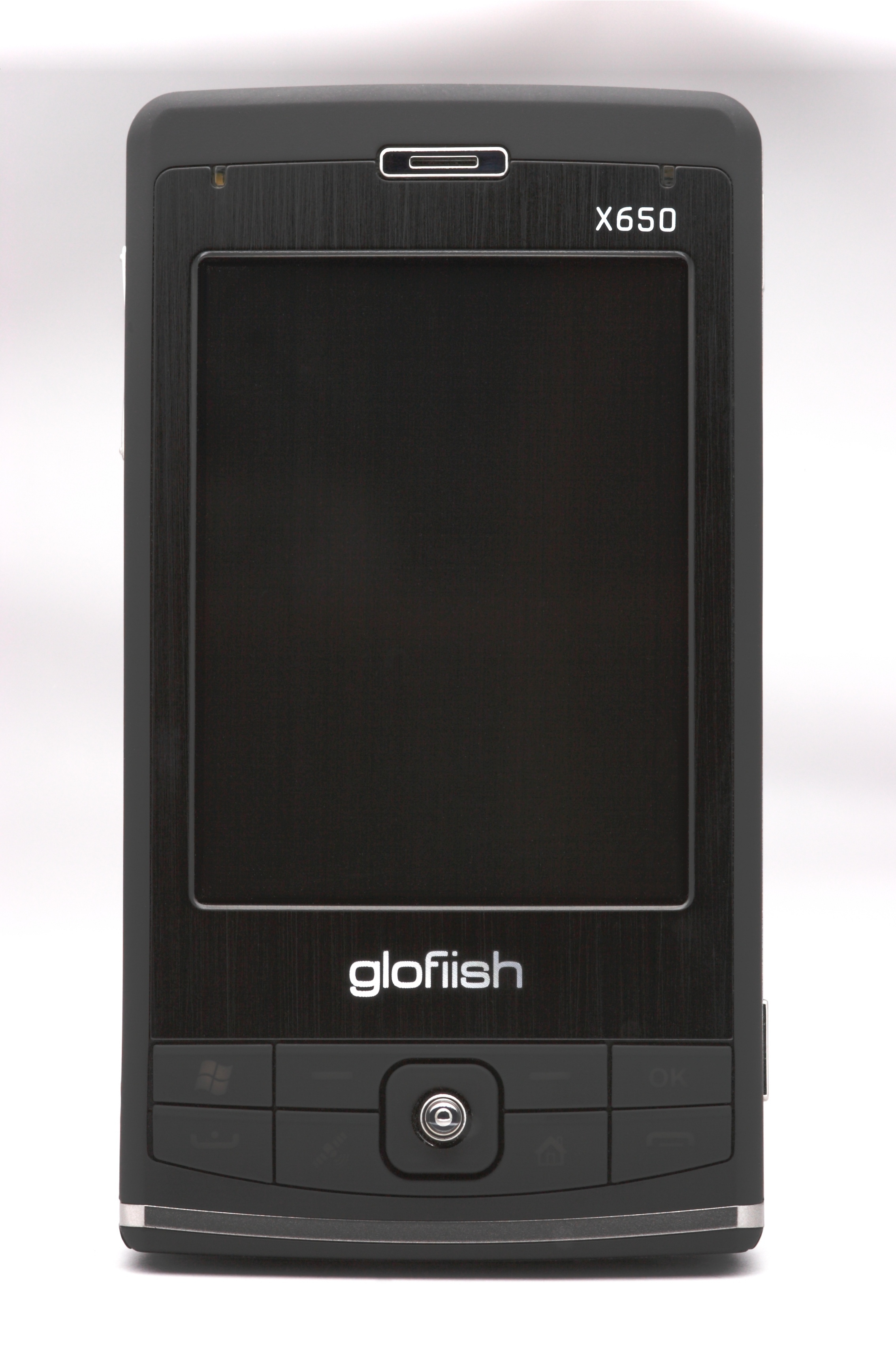 Eten Glofiish X650 smartphone (Windows Mobile)